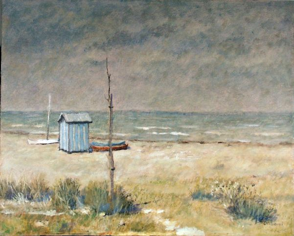 Painting by Silvio Oliboni : Spiaggia Pugliese / 0290ac